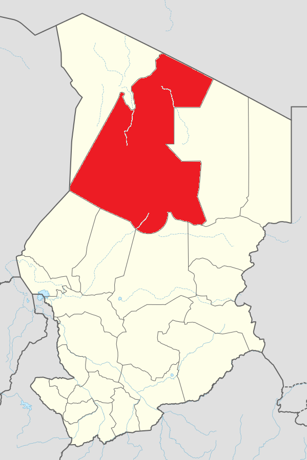 Map of Borkou Region. Not my own, based off of work by NordNordWest